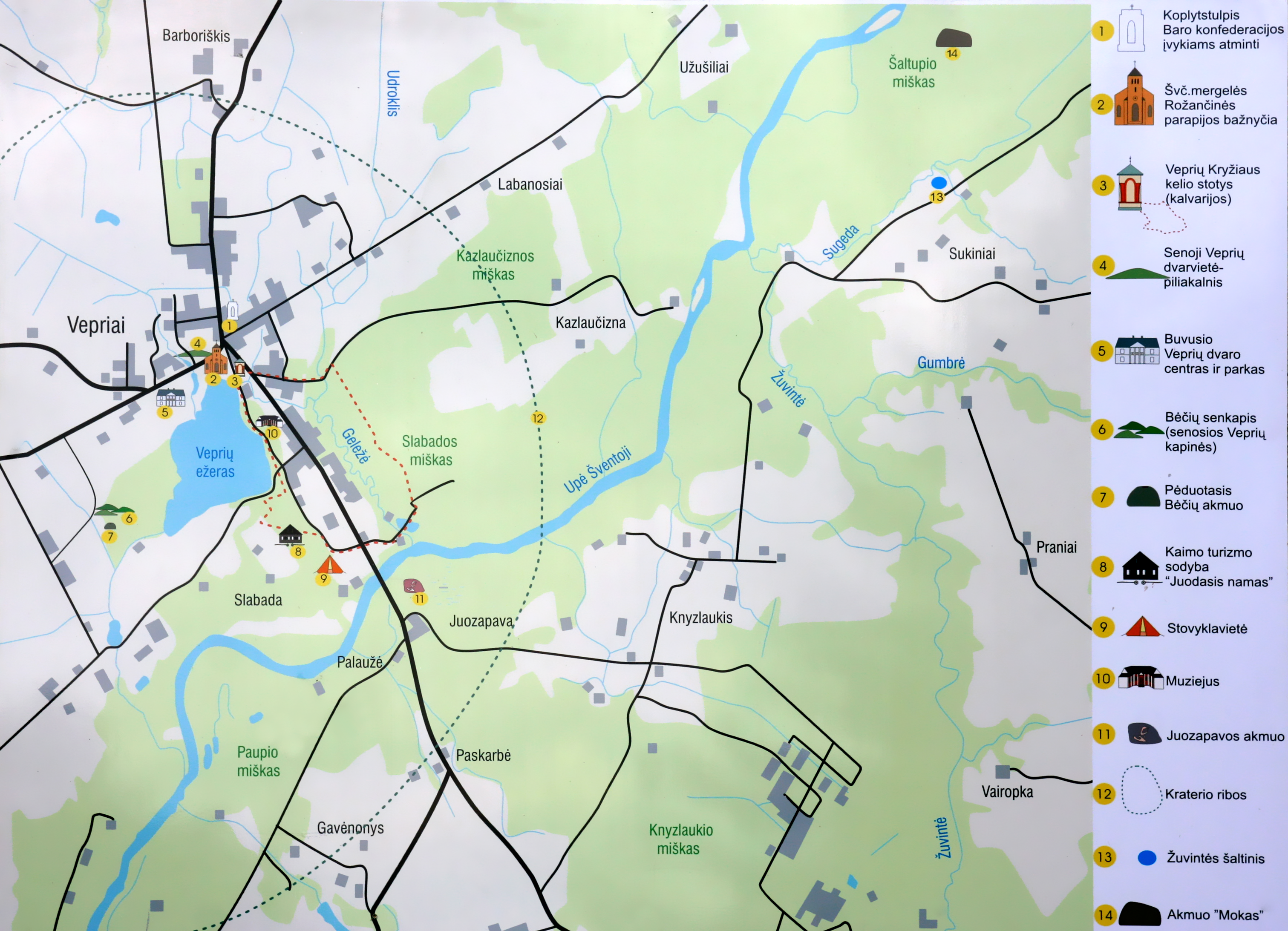 Map of the environs of Vepriai